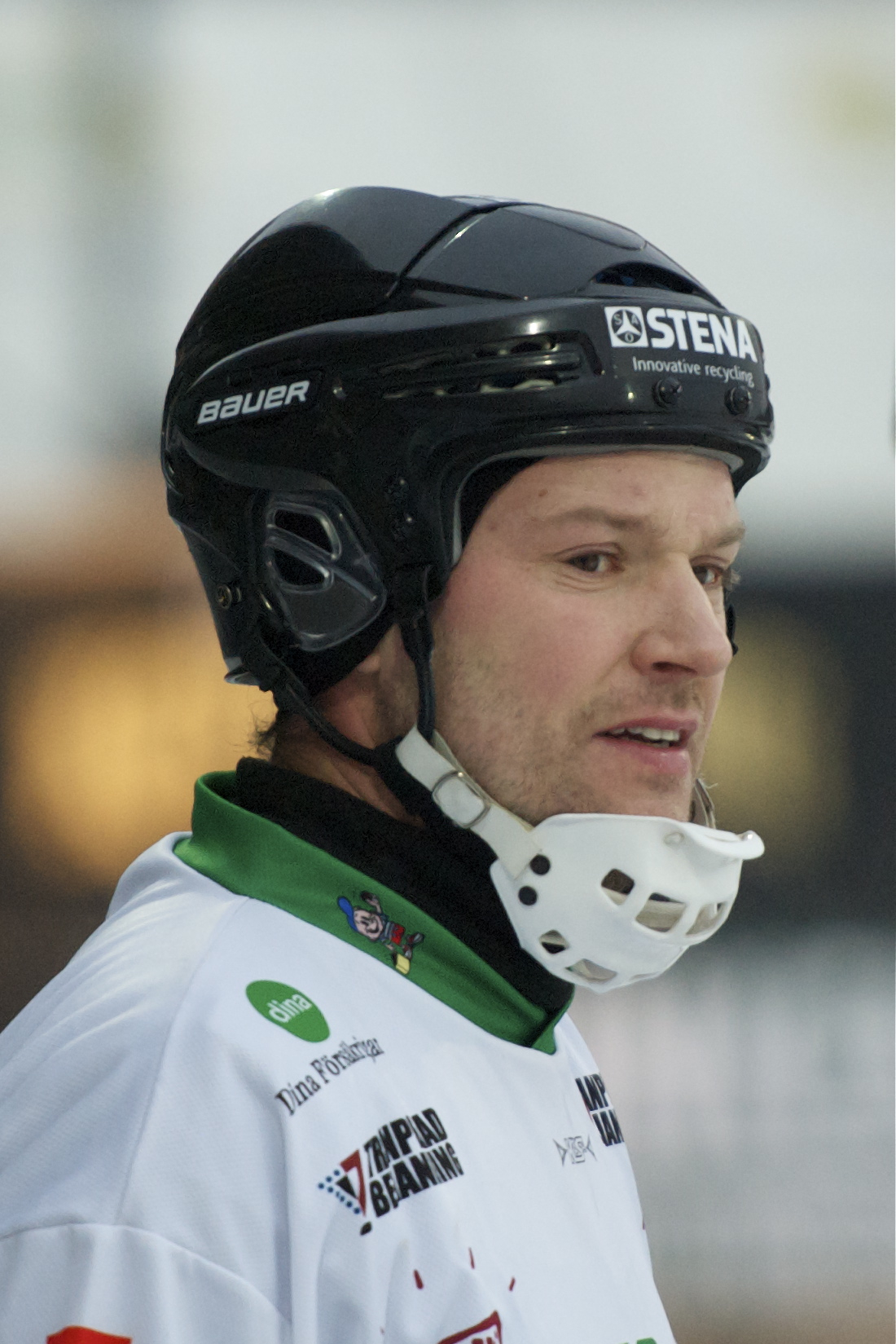 Magnus Muhrén, Gais Bandy. Bandy match between Hammarby and GAIS in Elitserien, Zinkendamms IP (Stockholm) 2012-02-11.